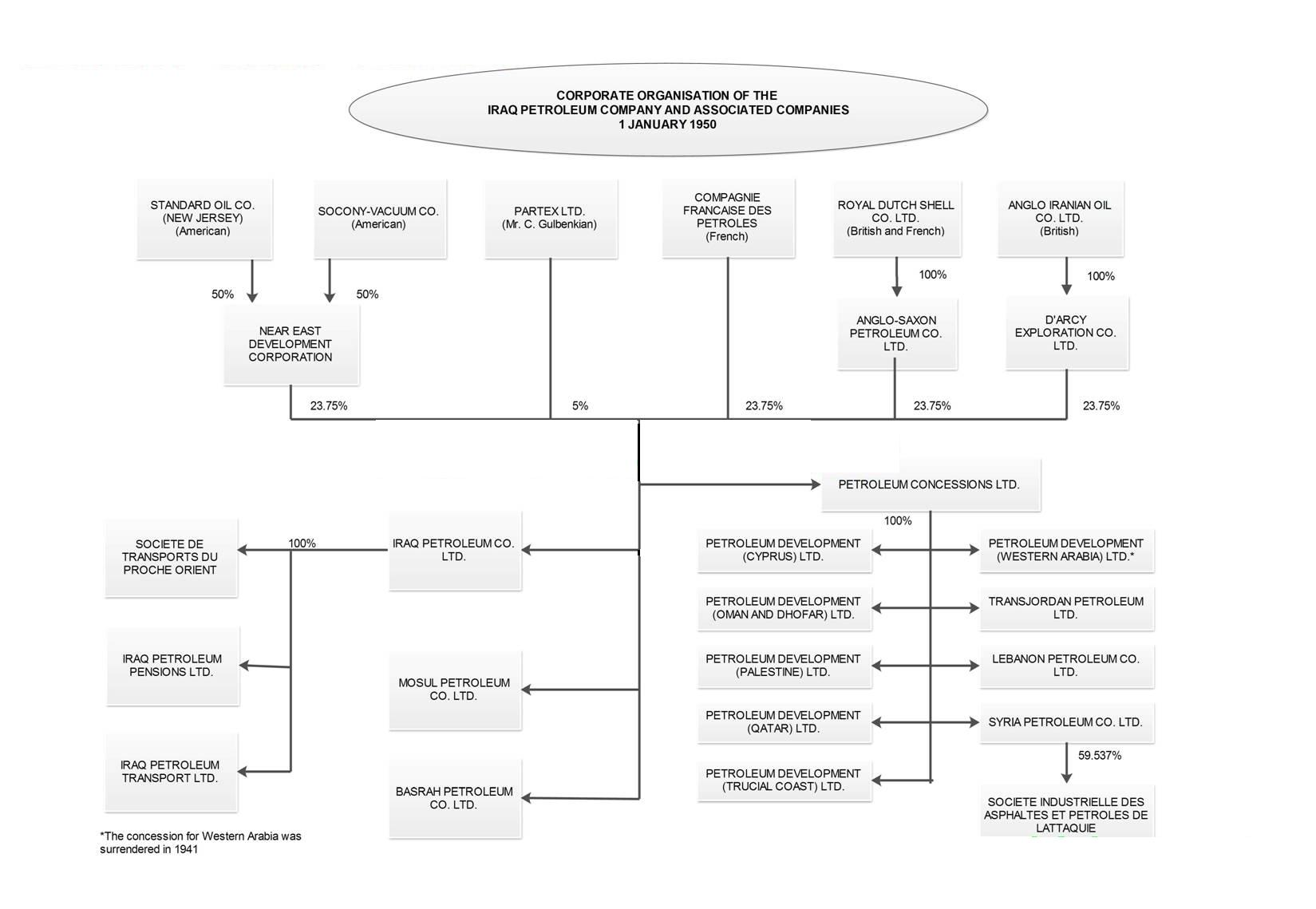 An chart showing the relationships between the companie sof the IPC group